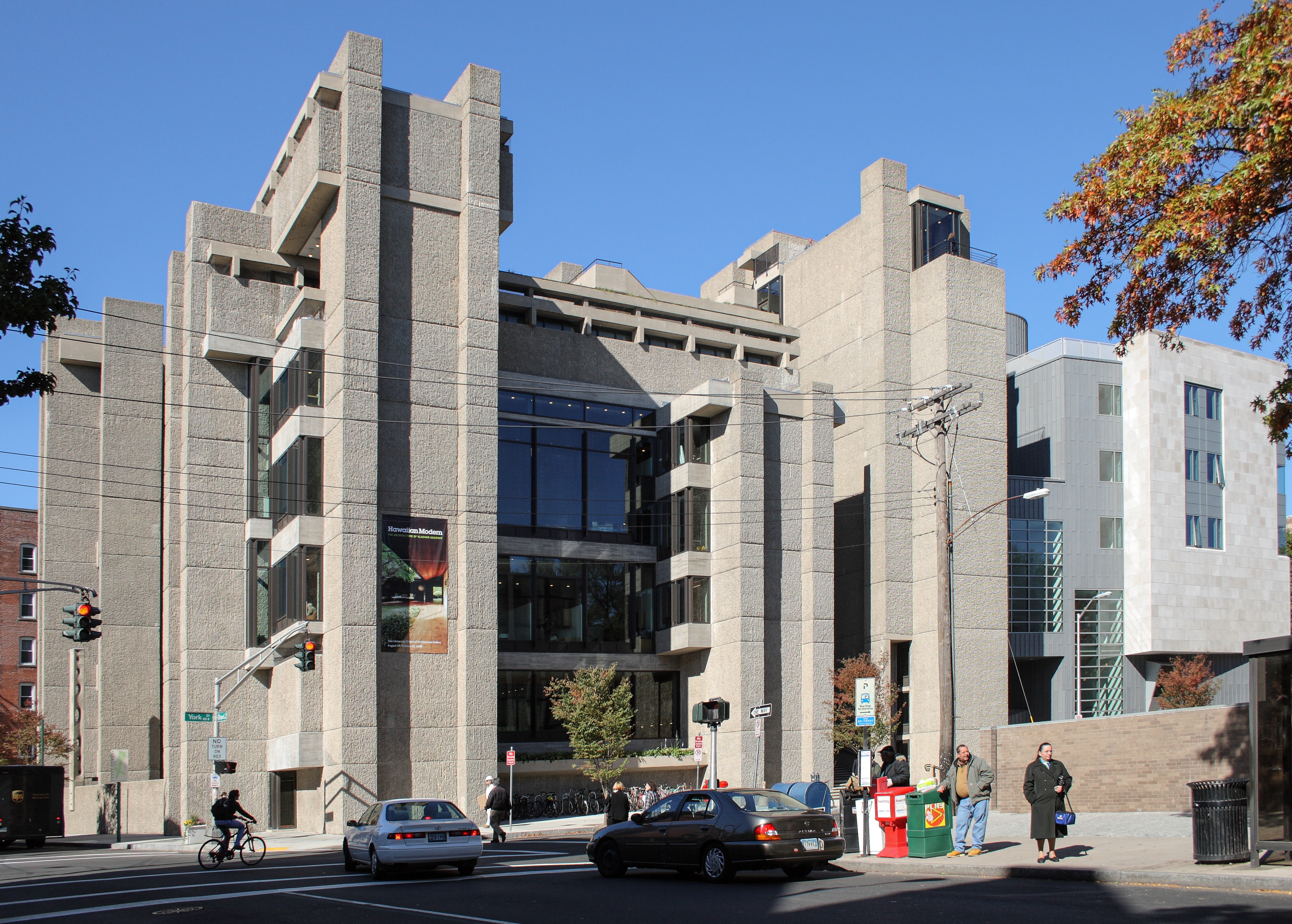 The expanded Art and Architecture Building at Yale University - Google Maps - Google Earth